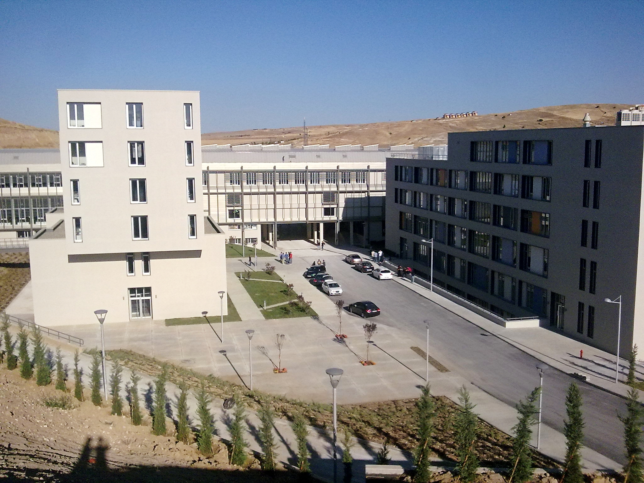 A view of Çankaya University on September 29, 2011Türkçe: Çankaya Üniversitesi'nden bir görünüm (29 Eylül 2011)